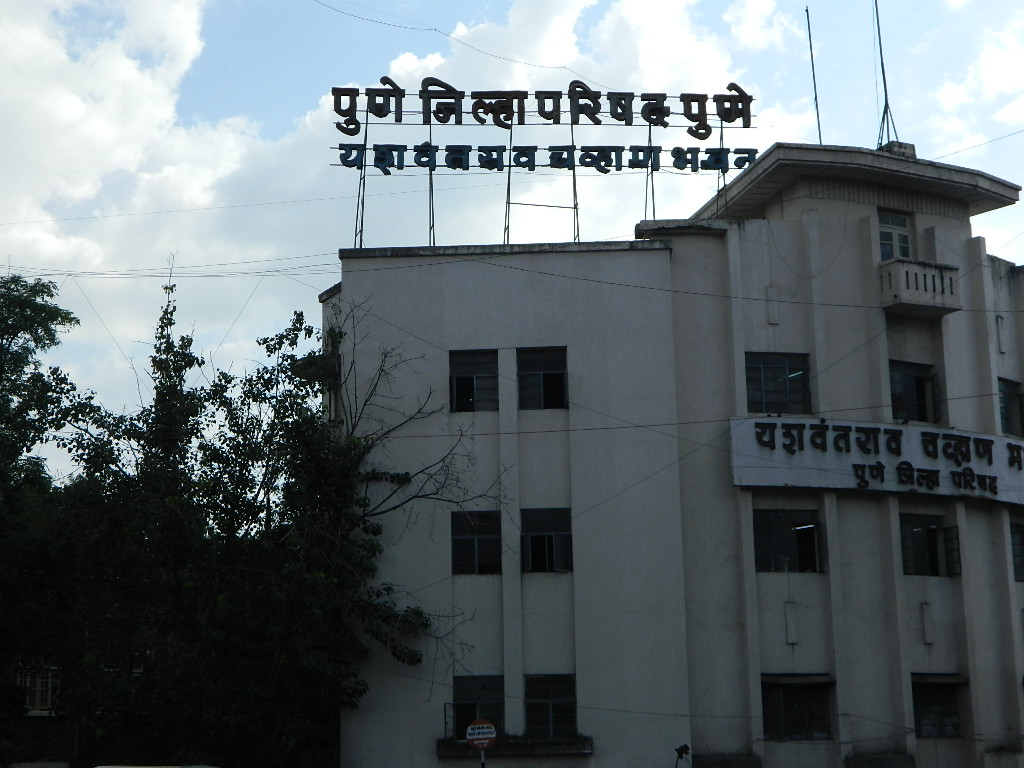 Zilla parishad building, Pune, Indai